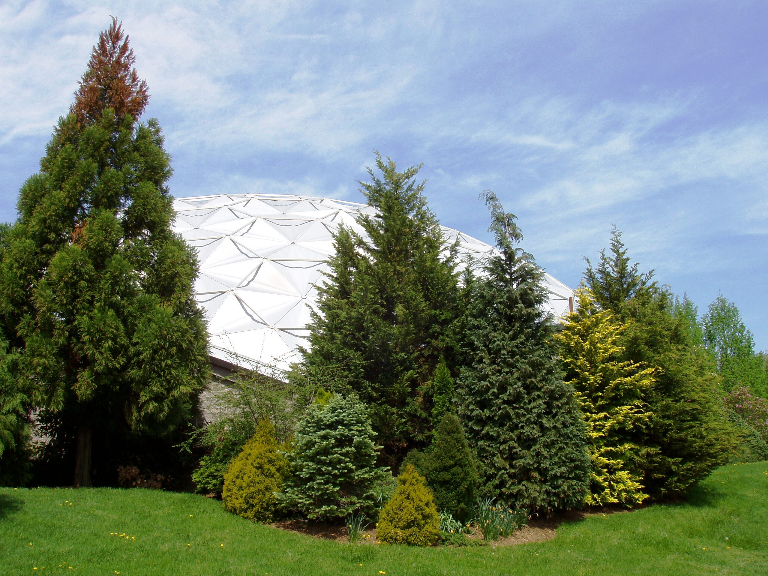 Dinosaur State Park and Arboretum, Rocky Hill, Connecticut, USA. Exterior view of dome with trees.